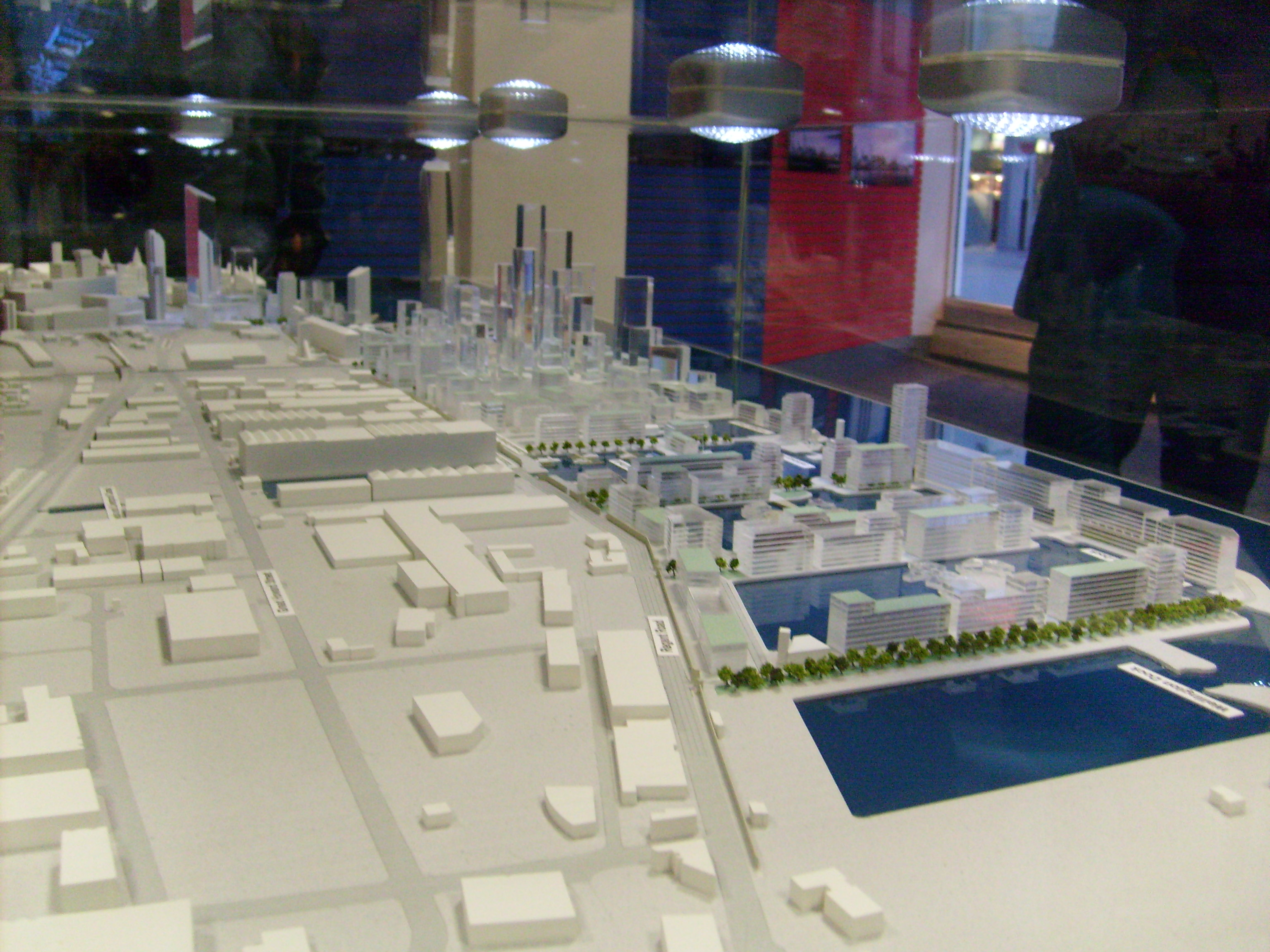 The proposed Liverpool Waters by peel holdings